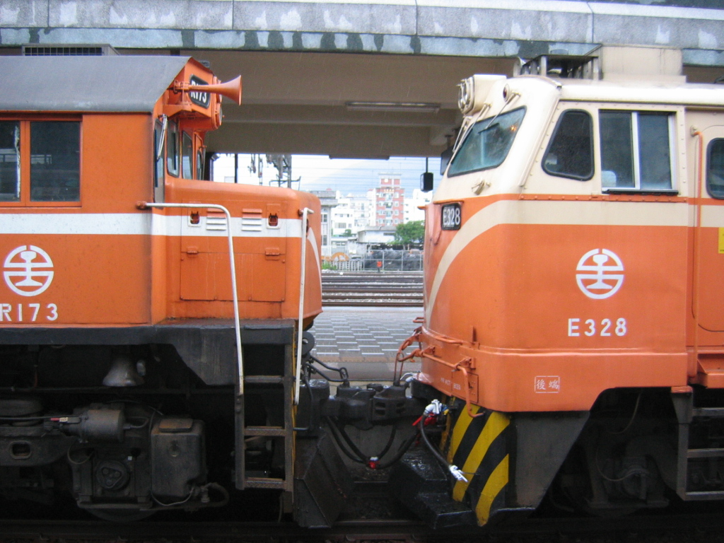 TRA R173 and E328 coupler.